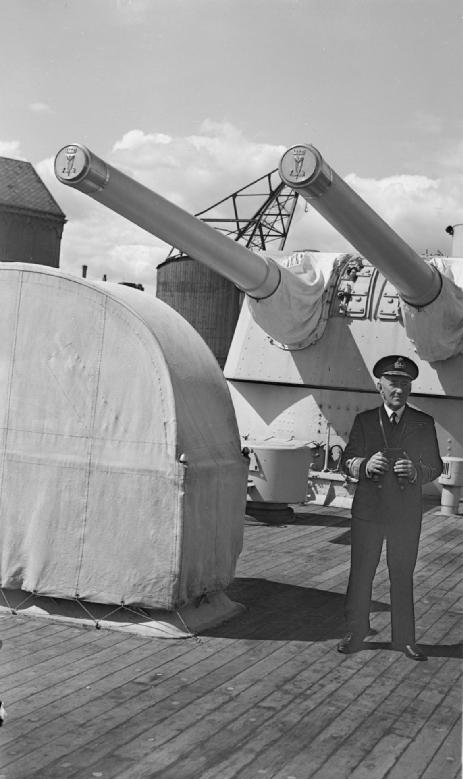 IWM caption : Vice Admiral McGrigor CB, DSO, commander of a cruiser squadron, stood under some of the 8 inch guns of his flagship HMS NORFOLK at Oslo, Norway.